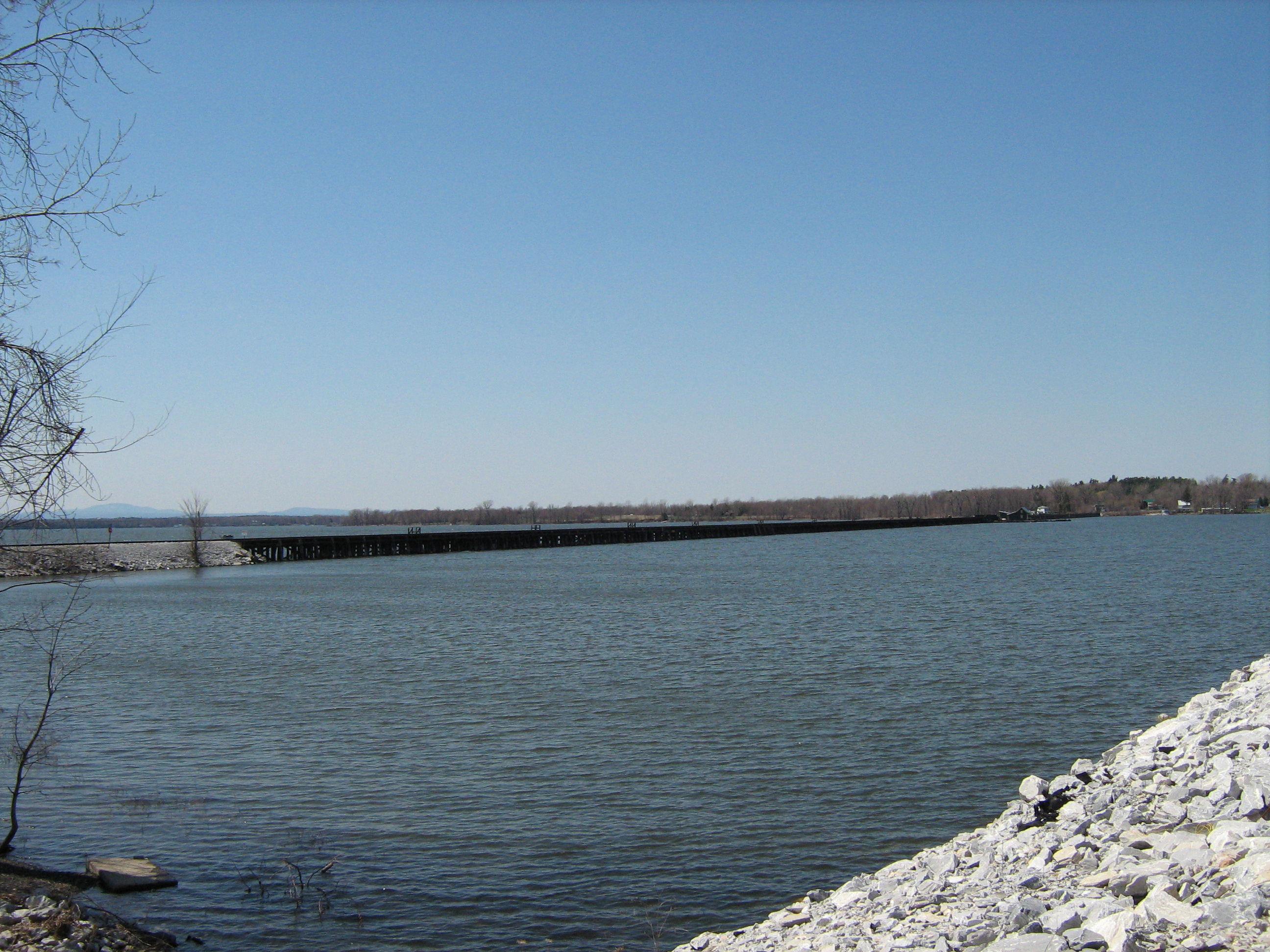 Railroad trestle spanning Lake Champlain between Swanton and Alburgh, Vermont